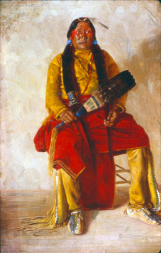 Chosequah, a Comanche Indian painted from life by E.A Burbank at Fort Sill 1897.